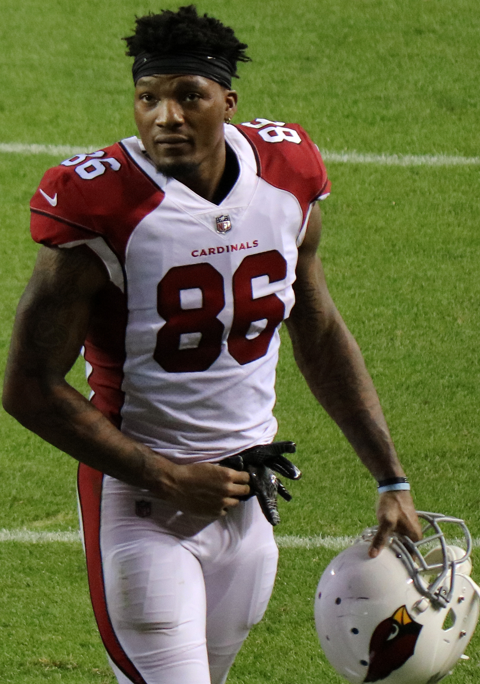 Ricky Seals-Jones, a player on the National Football League.